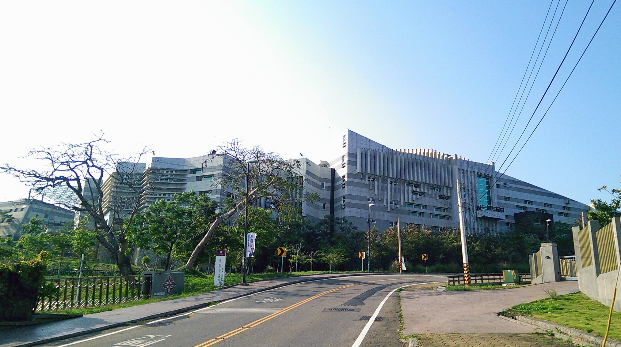 National Changhua Living Art Center, Changhua City, Changhua County, Taiwan中文（台灣）: 國立彰化生活美學館側面